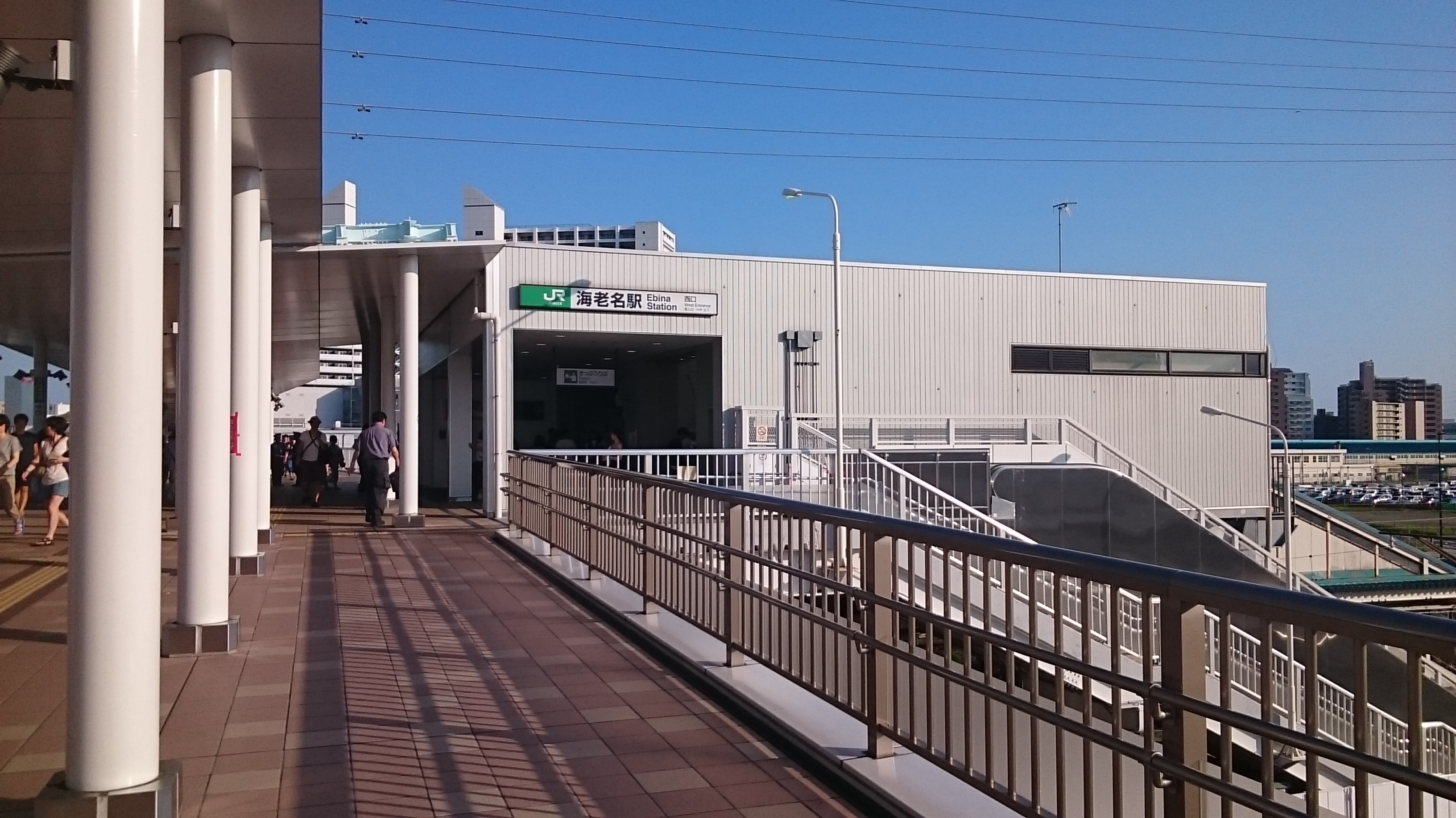 The west entrance to JR East Ebina Station on the Sagami Line in Ebina, Kanagawa Prefecture, Japan